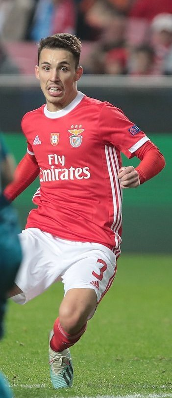 Benfica-Zenit UEFA Champions League 2019/20 (10/12/2019)